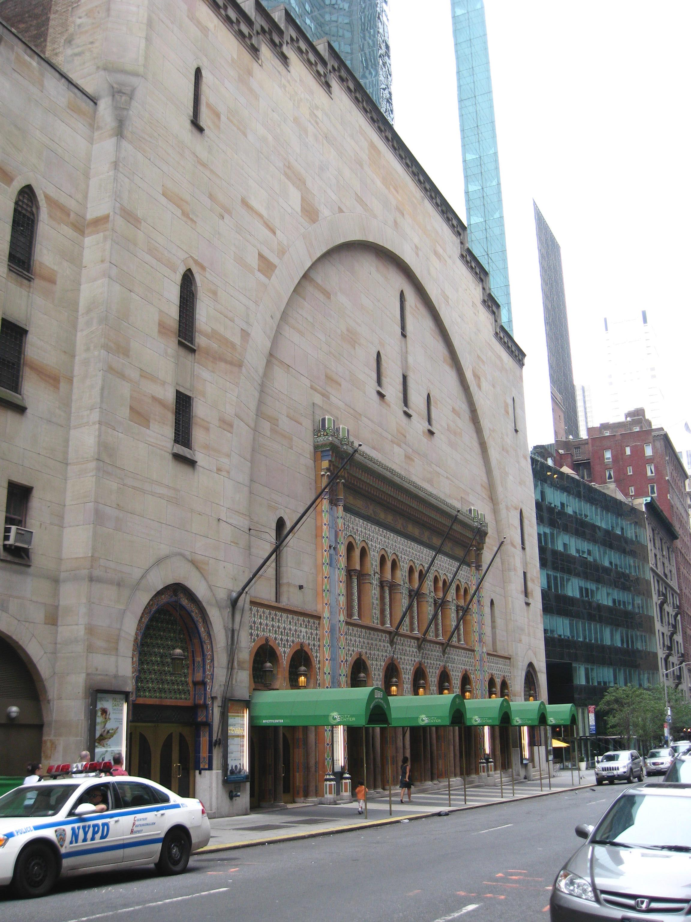 Looking east at New York City Center